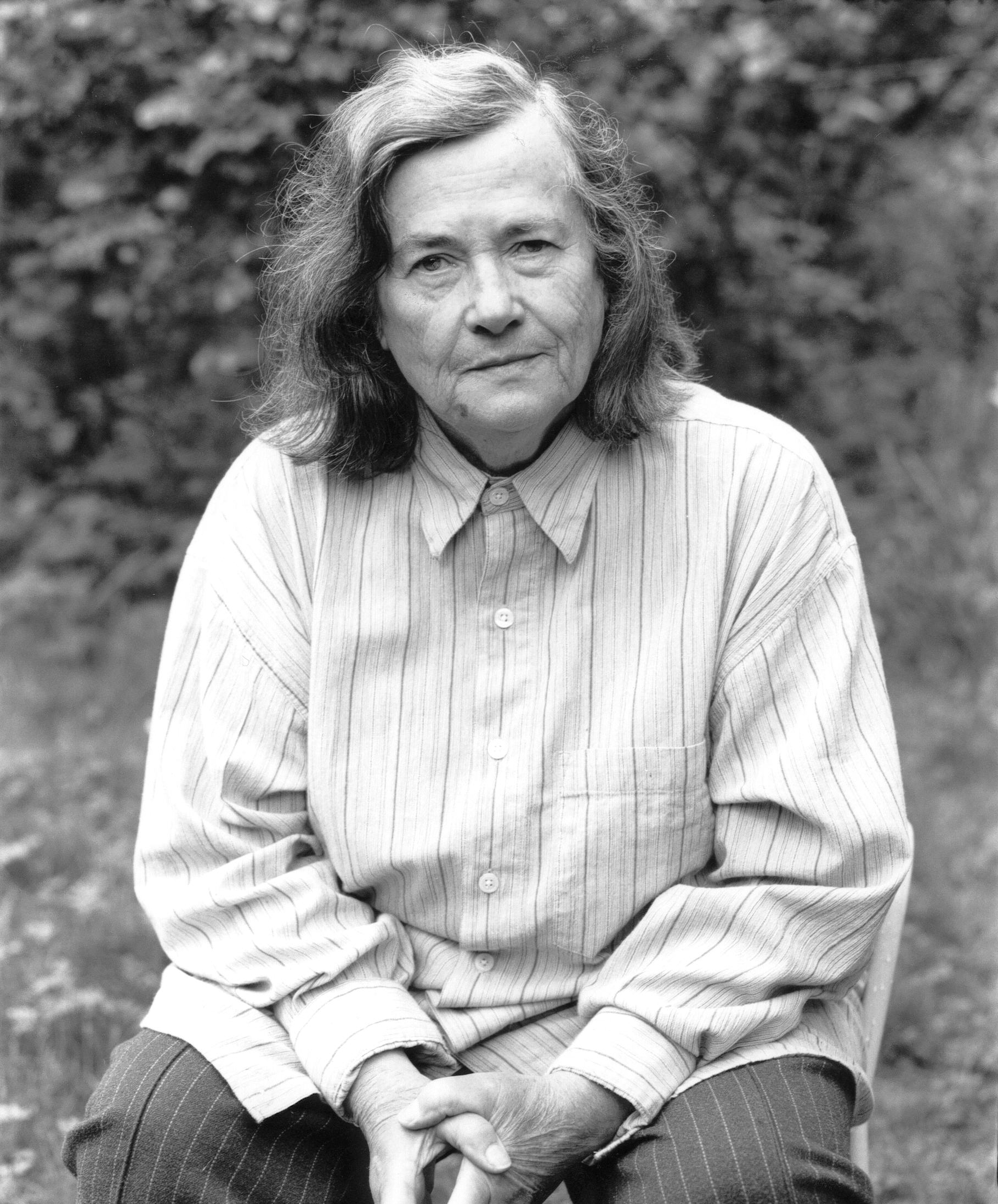 Filmmaker Edeltraud Engelhardt in 1996